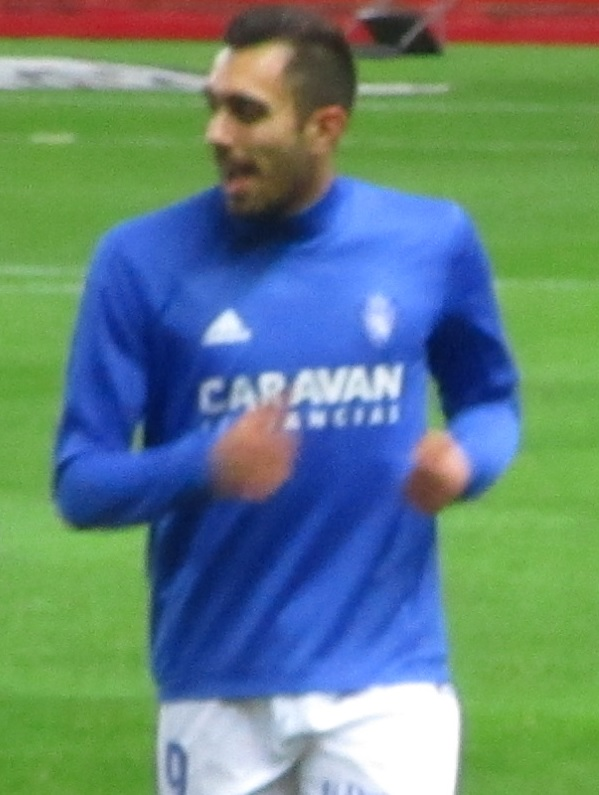 Borja Iglesias, Spanish footballer